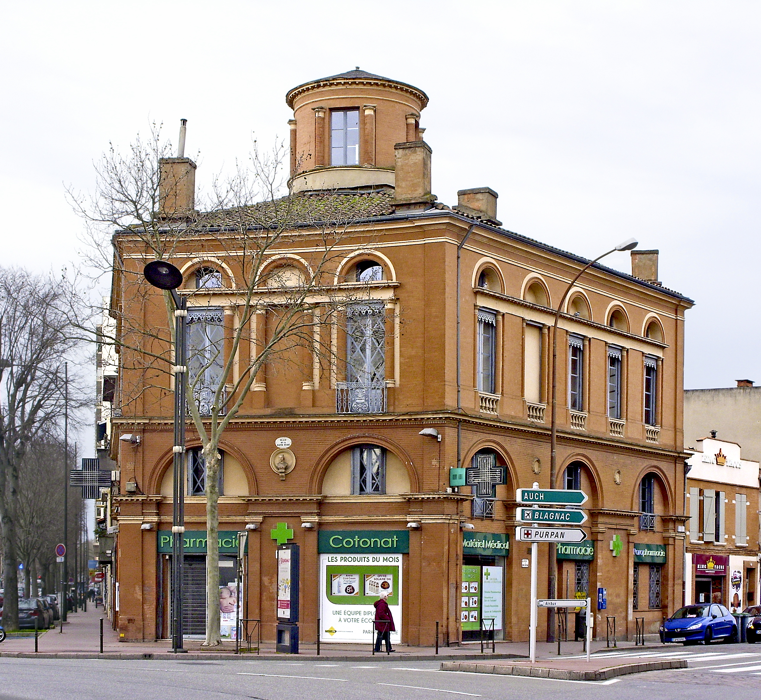 Italianate villa decorated with terracotta from the Virebent factory.